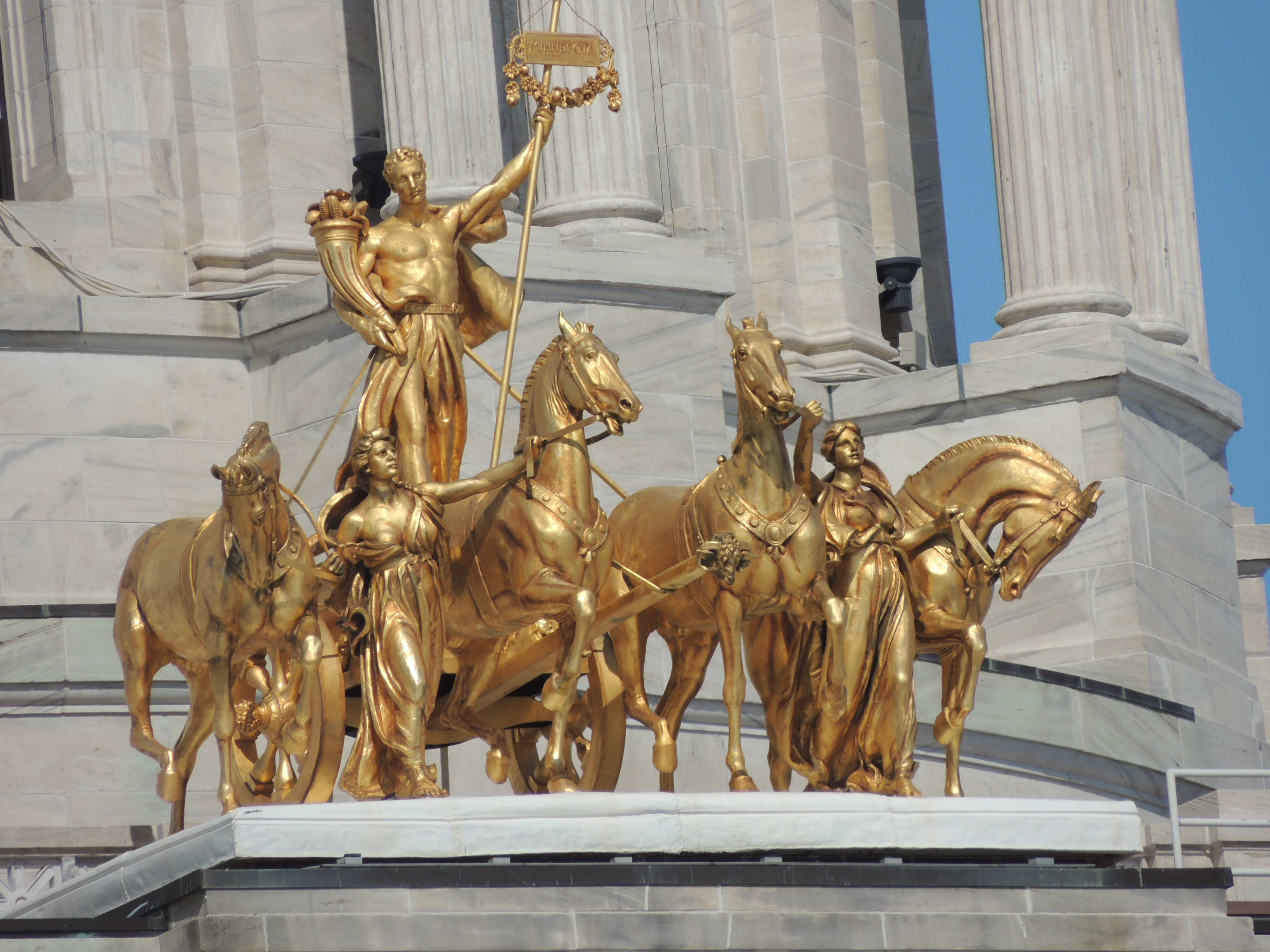 The golden quadriga known as Progress of the State above an entrance to Minnesota State Capitol